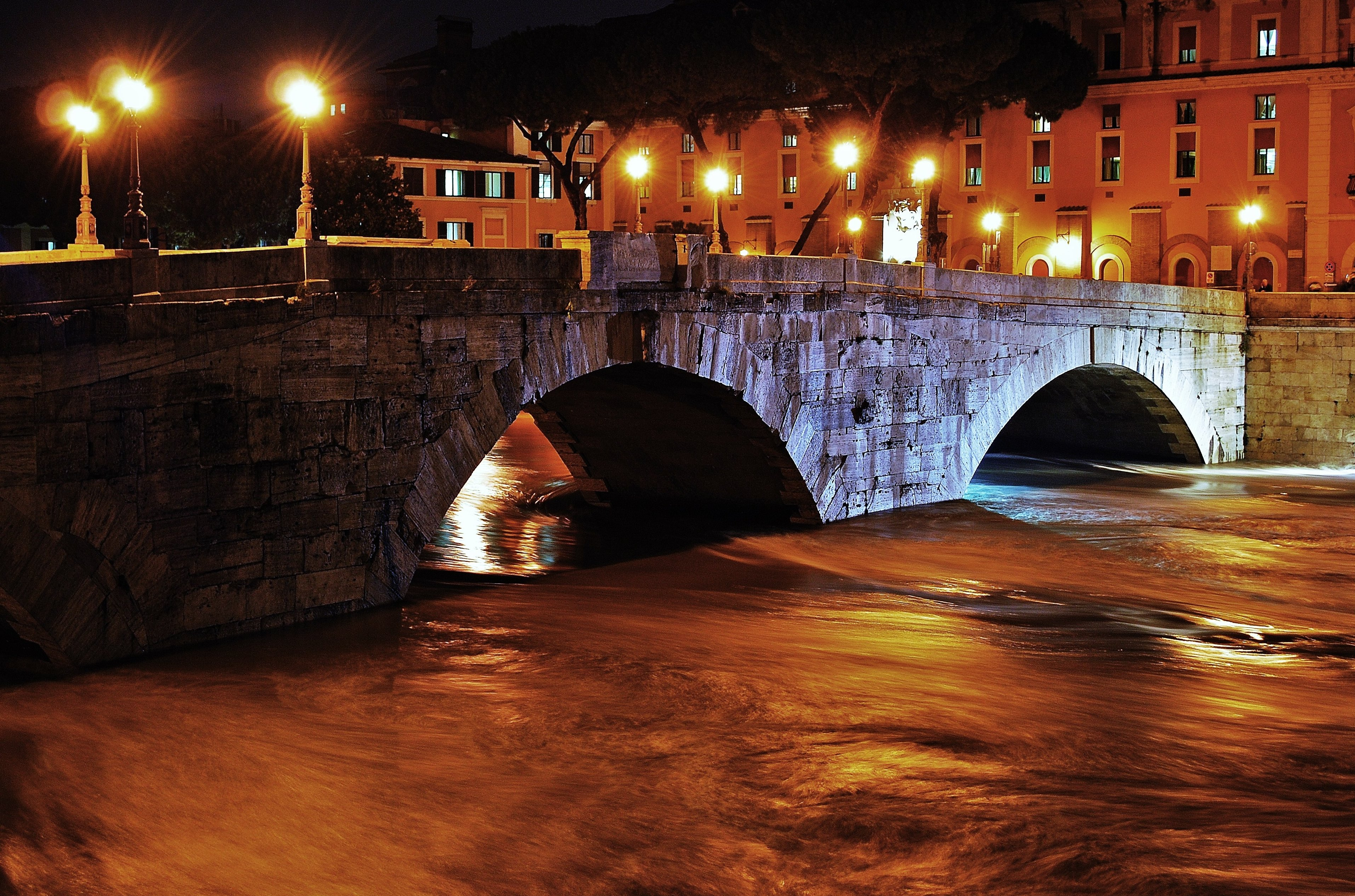 The Ponte Cestio in Rome, Italy, during a flood in December 2008